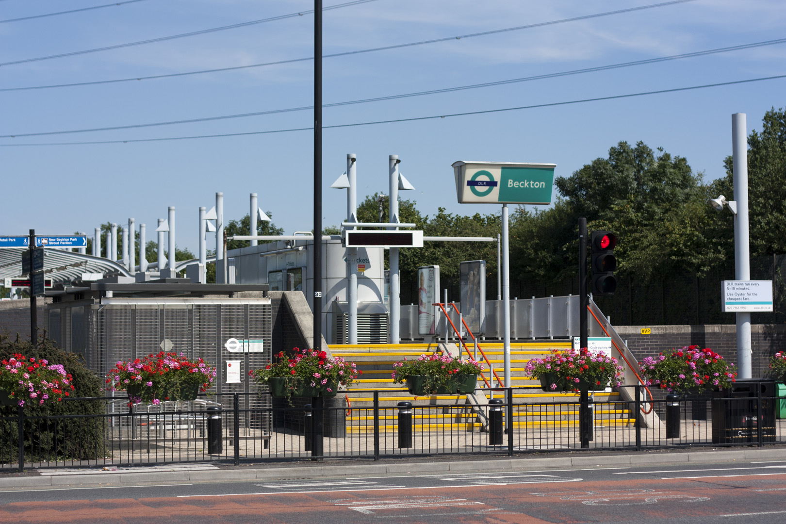 Stairs to Beckton DLR, there's also a ramp at the left side, not shown here